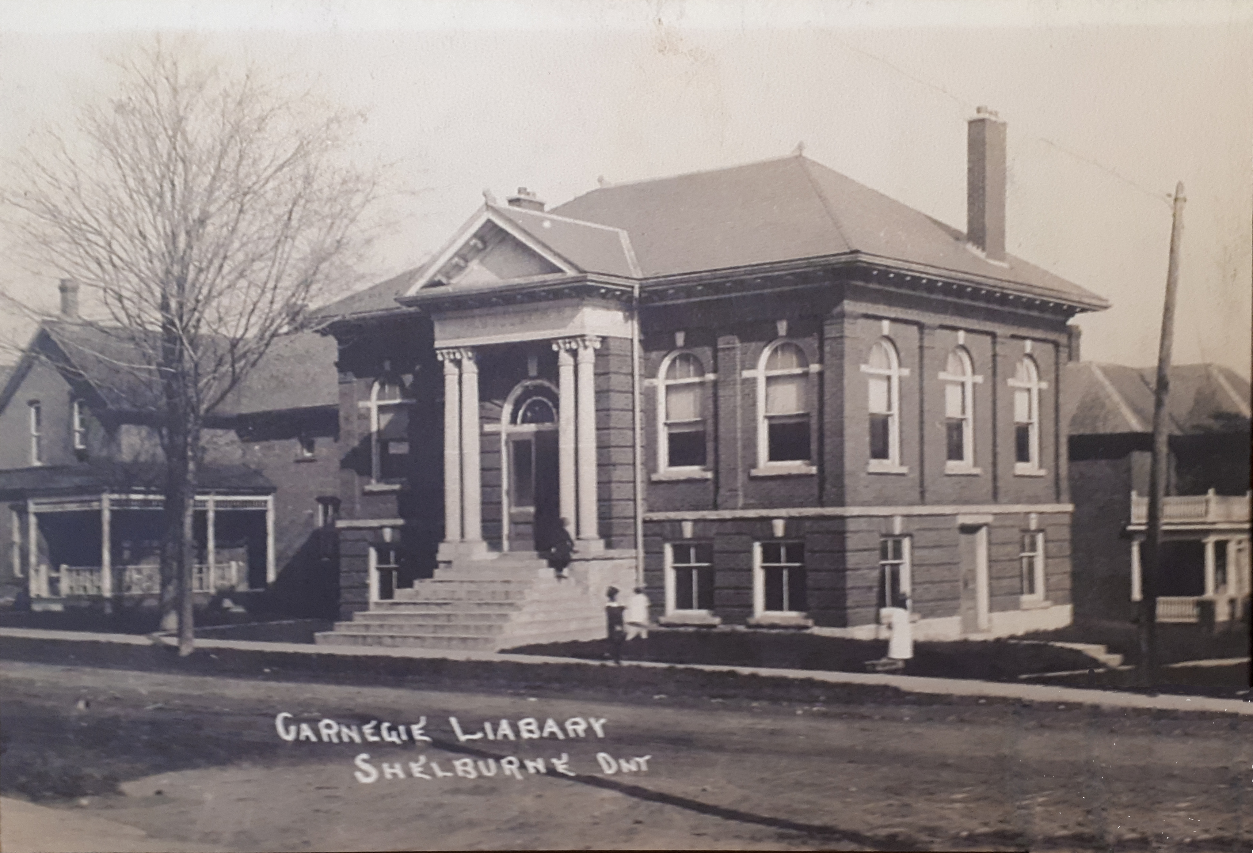 old postcard inside the library, shown circa 1910